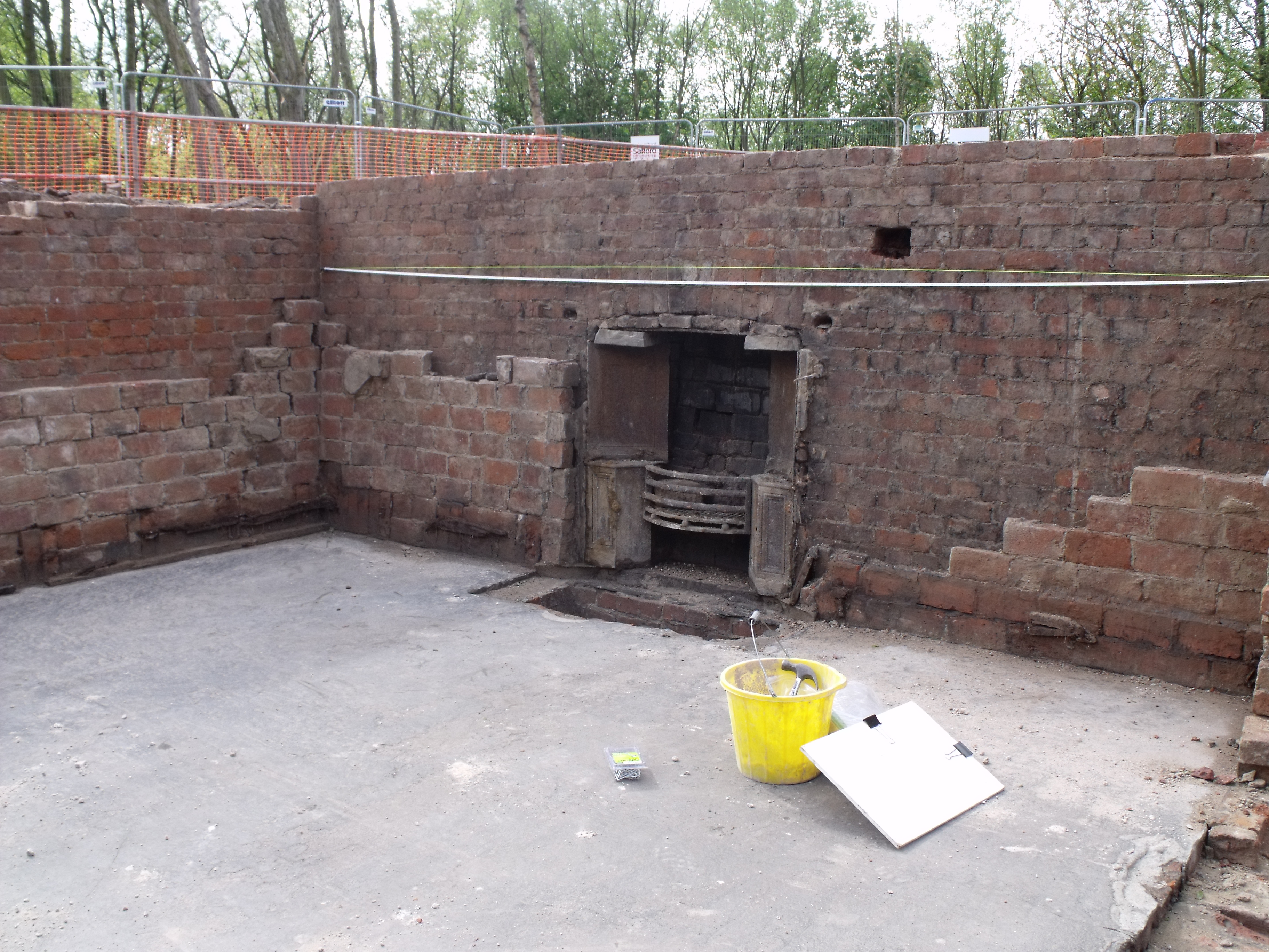 Excavated cellar chamber and fire place, Worsley New Hall